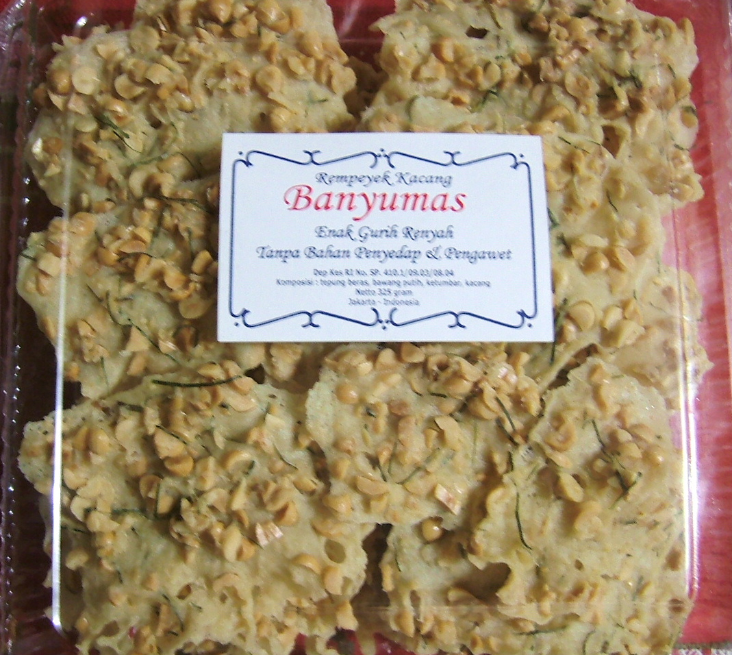 Peanuts crackers